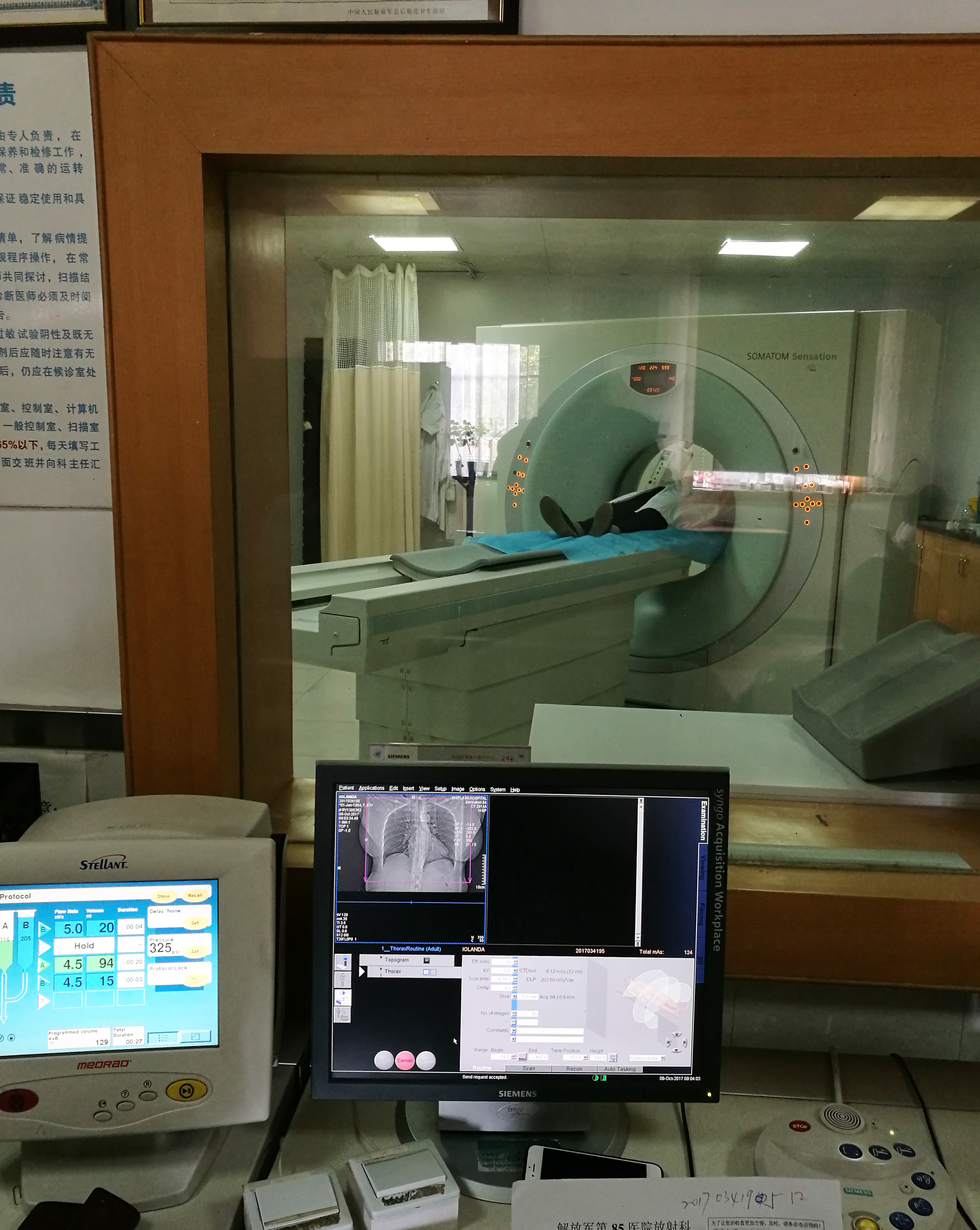 Patient undergoing CT Scan (Siemens Somatom Sensation 64 slice scanner)